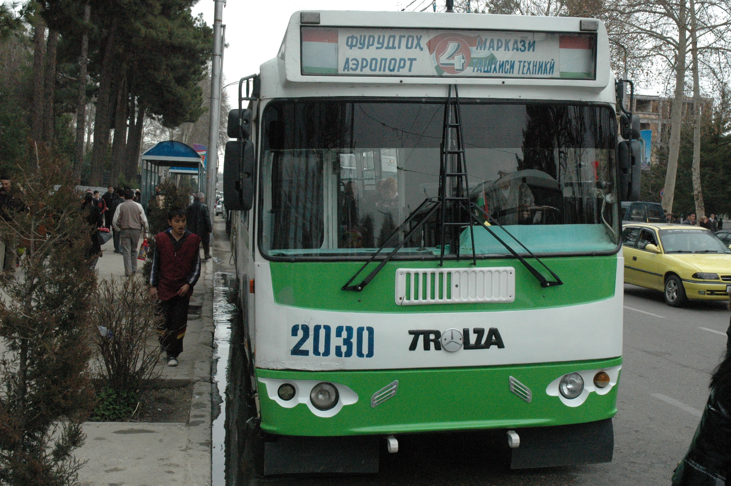 TrolZa ZiU-682-016 trolleybus in Dushanbe, Tajikistan